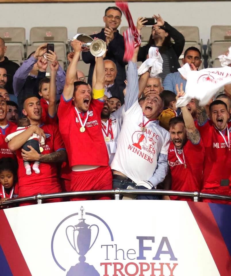 Balzan FC wins FA Trophy on 18 May 2019